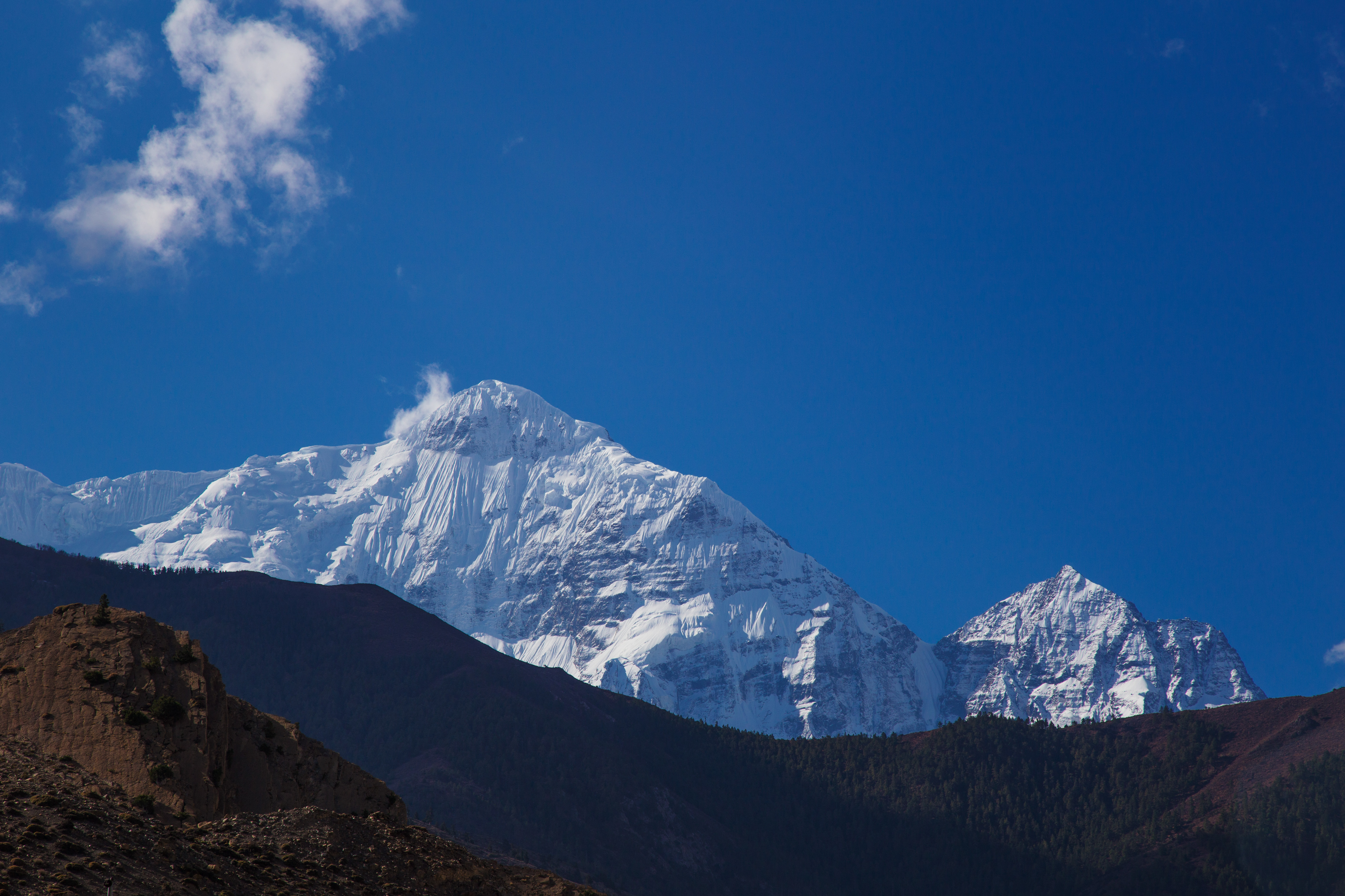 The Nilgiri Himal is a range of three peaks in the Annapurna massif in Nepal. It is composed of Nilgiri North (7061 m), Nilgiri Central (6940 m) and Nilgiri South (6839 m). Nilgiri North was first ascended in October 1962 by The Netherlands Himalayan Expedition. The team leader was a famous French climber Lionel Terray. (cc) Wiklipedia